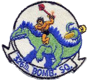 Emblem of the 326th Bombardment Squadron (SAC)